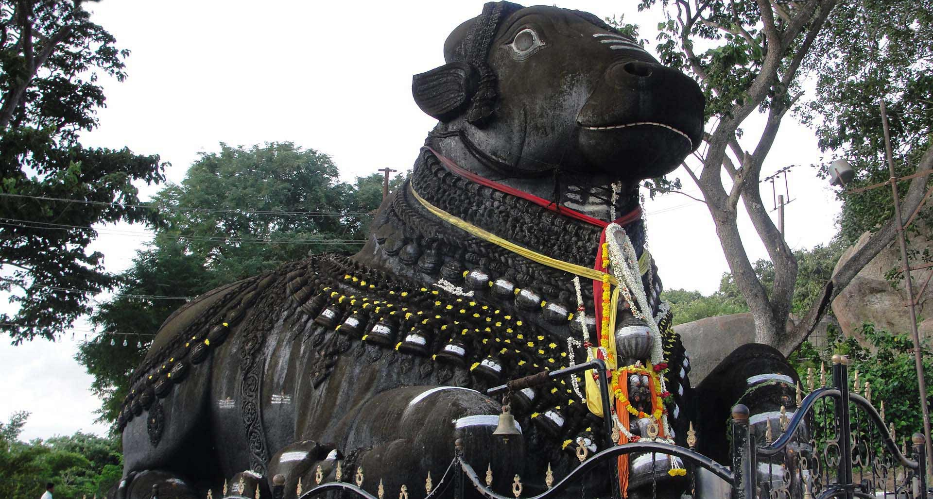 Nandi Statue - on the way to Chamundi Hills, Mysore City.